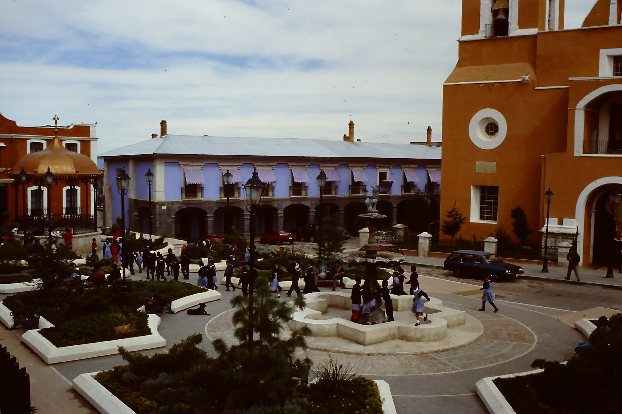 Mineral del Monte Center (1997)